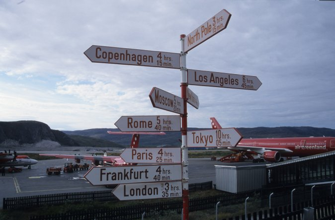 Signs showing the duration of time to some destinations from Søndre Strømfjord Airport (Kangerlussuaq Airport), Greenland